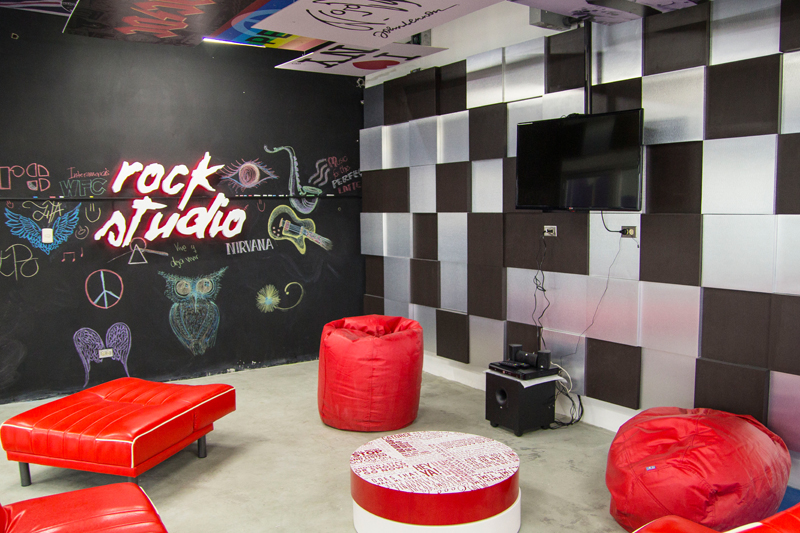 TELUS International office in El Salvador